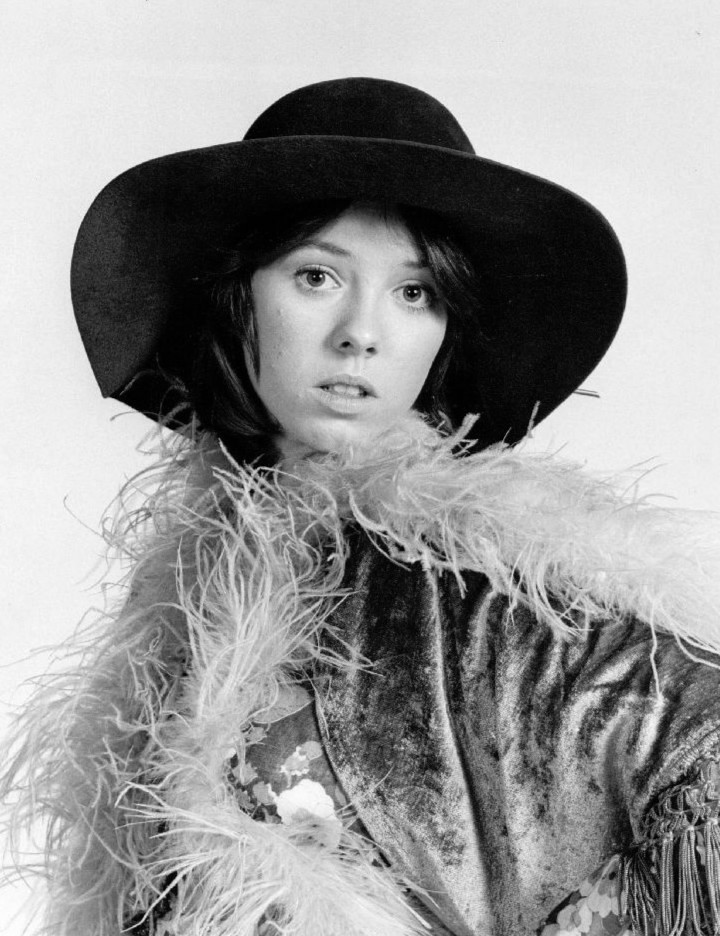 Photo of Mackenzie Phillips from the television program GE Theater.